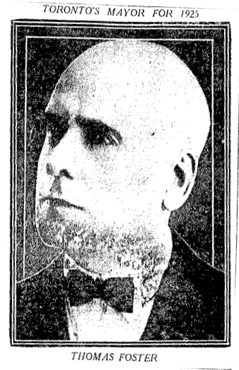 photo of Thomas Foster (Canadian politician)